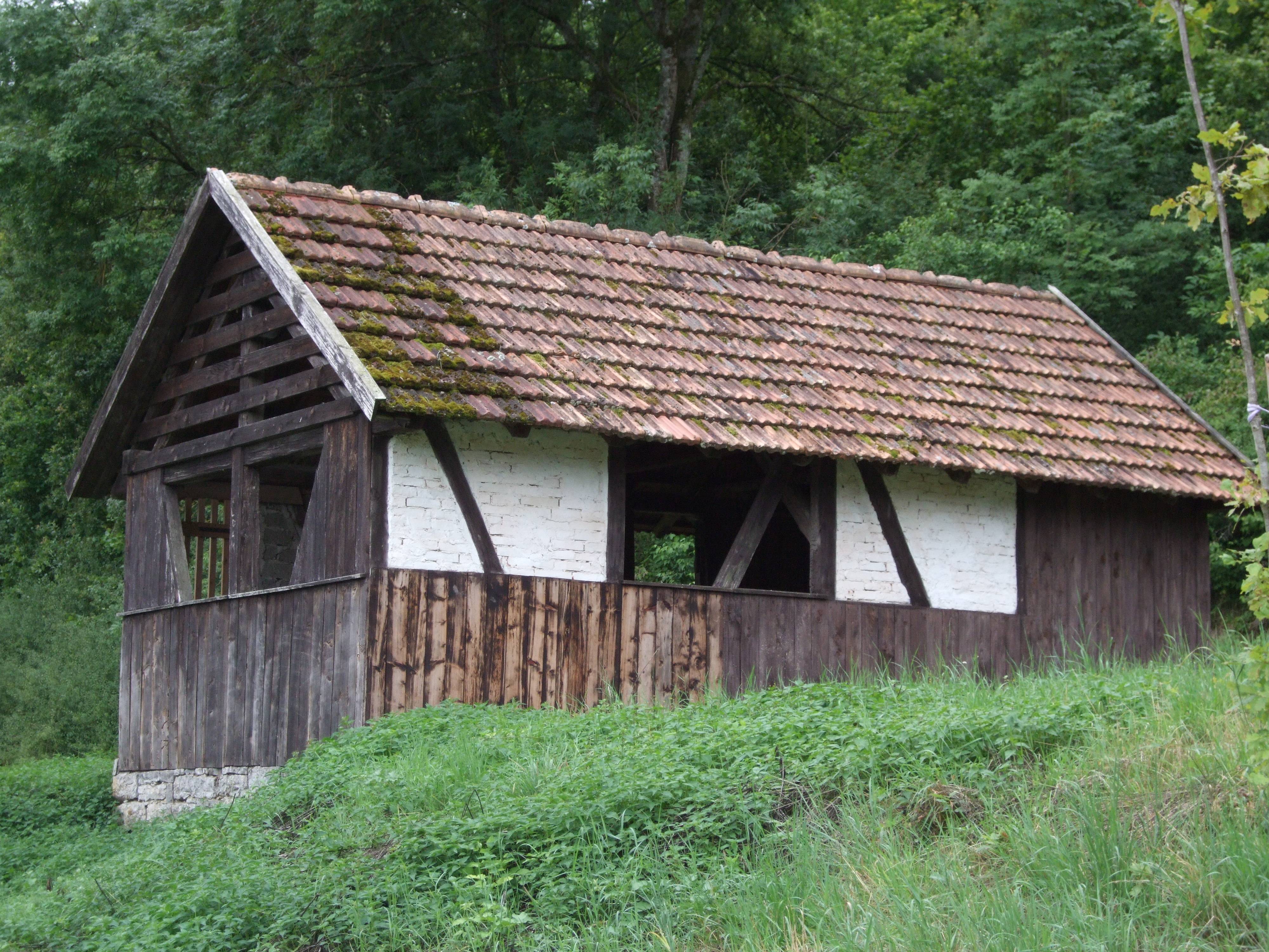 Hut for kiln-drying of unripe spelt grain. Sindolsheim, "Bauland", Baden-Württemberg, Germany